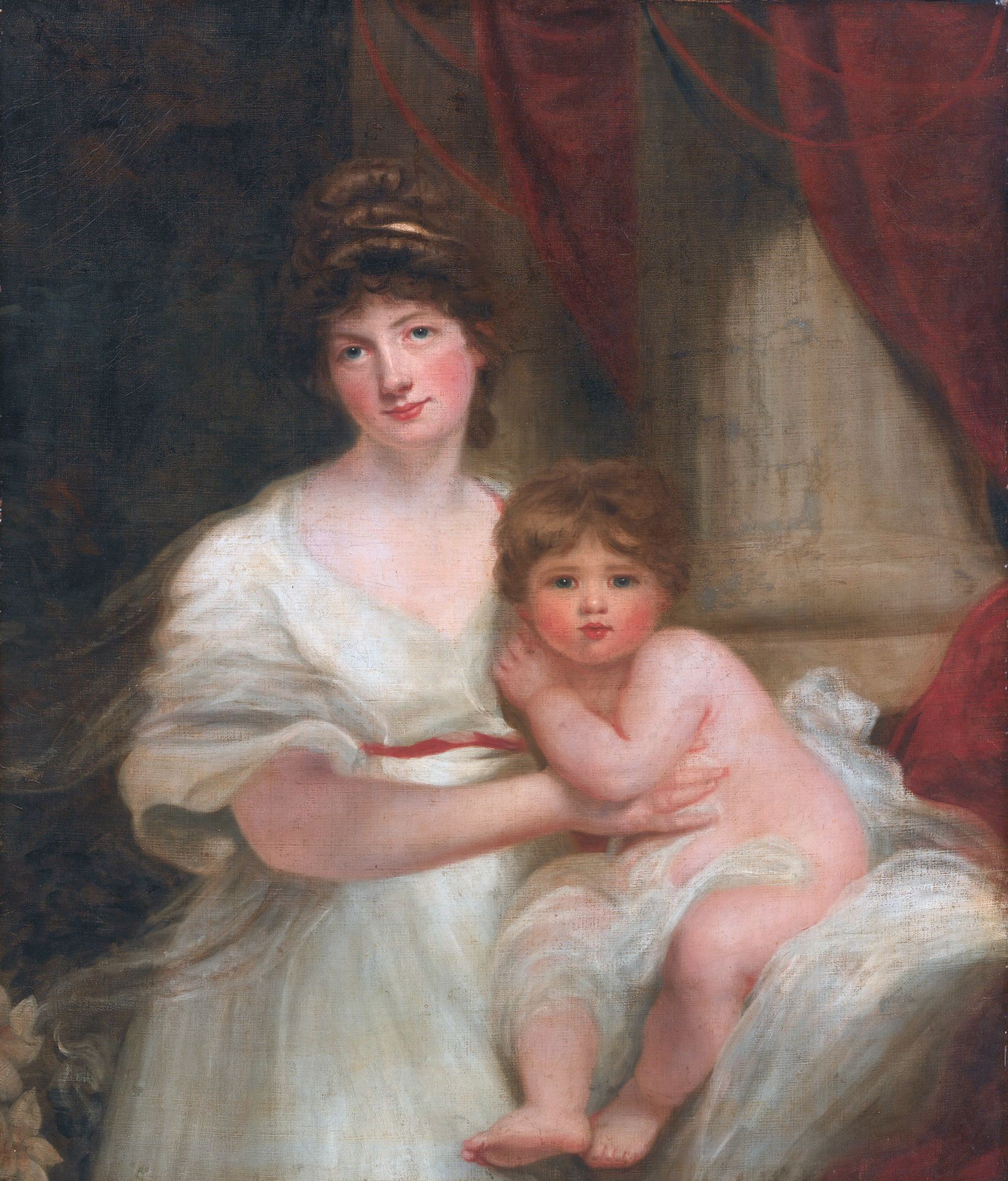 The Countess of Oxford and her daughter, Lady Jane Elizabeth Harley oil on canvas 101.6 x 86.3 cm. later than 1796